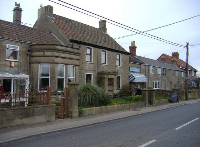 Tunley Road, Tunley